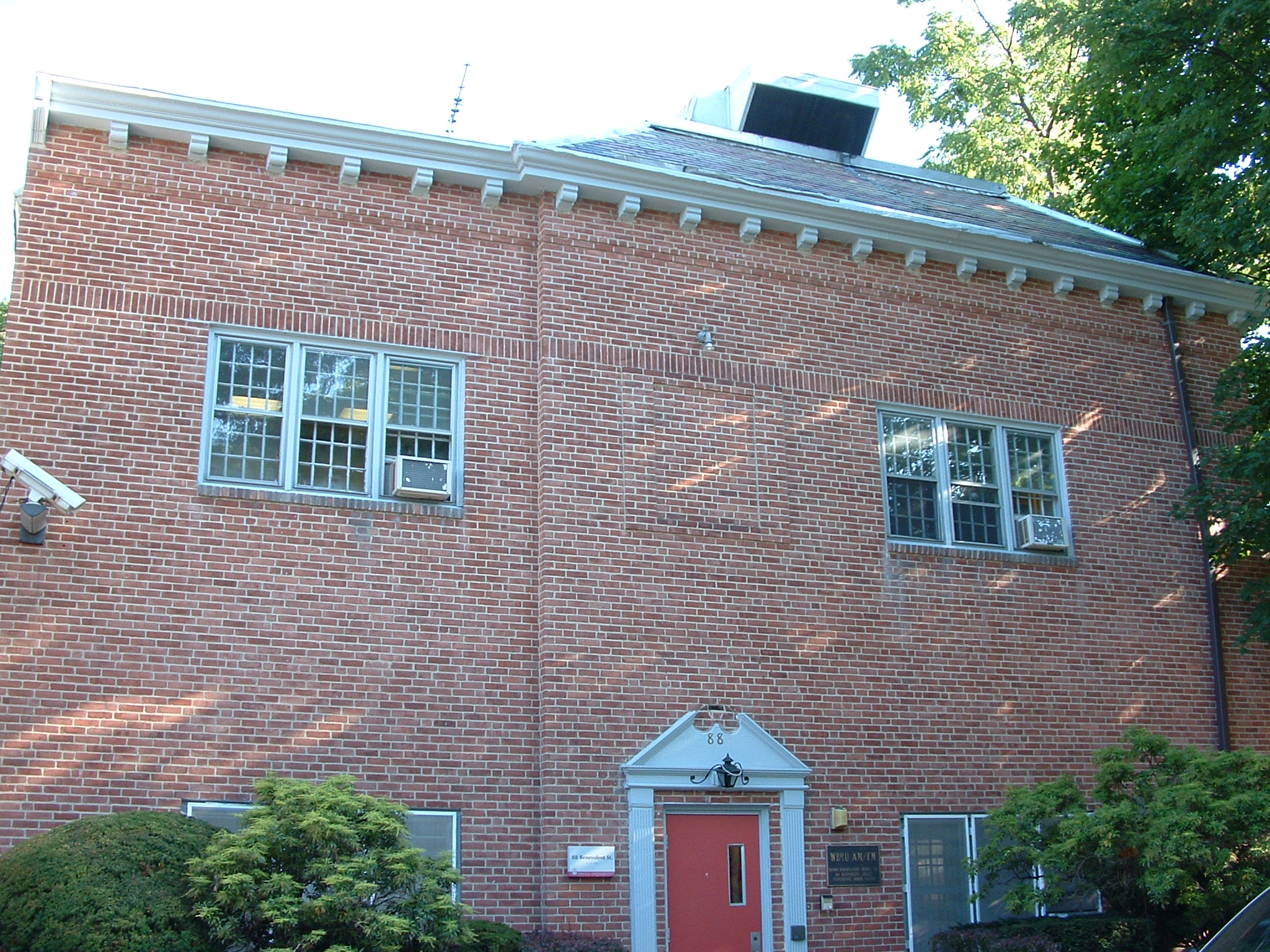 Brown University - 88 Benevolent St